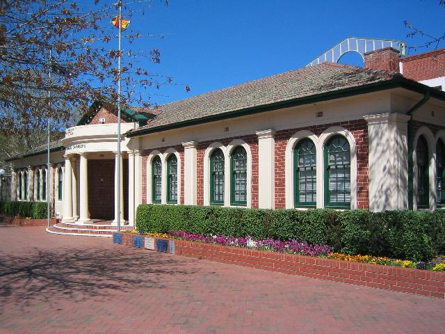 Queanbeyan City Council Chambers building circa 1927